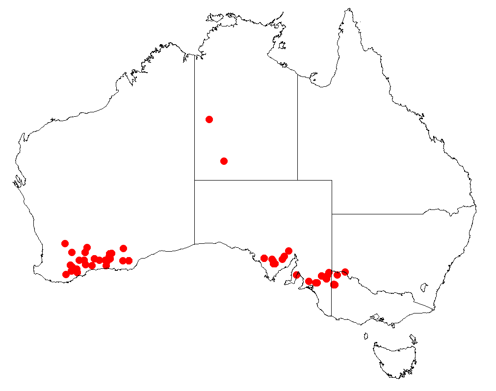 Lawrencia berthae occurrence records downloaded from Australasian Virtual Herbarium, on 22 May 2018